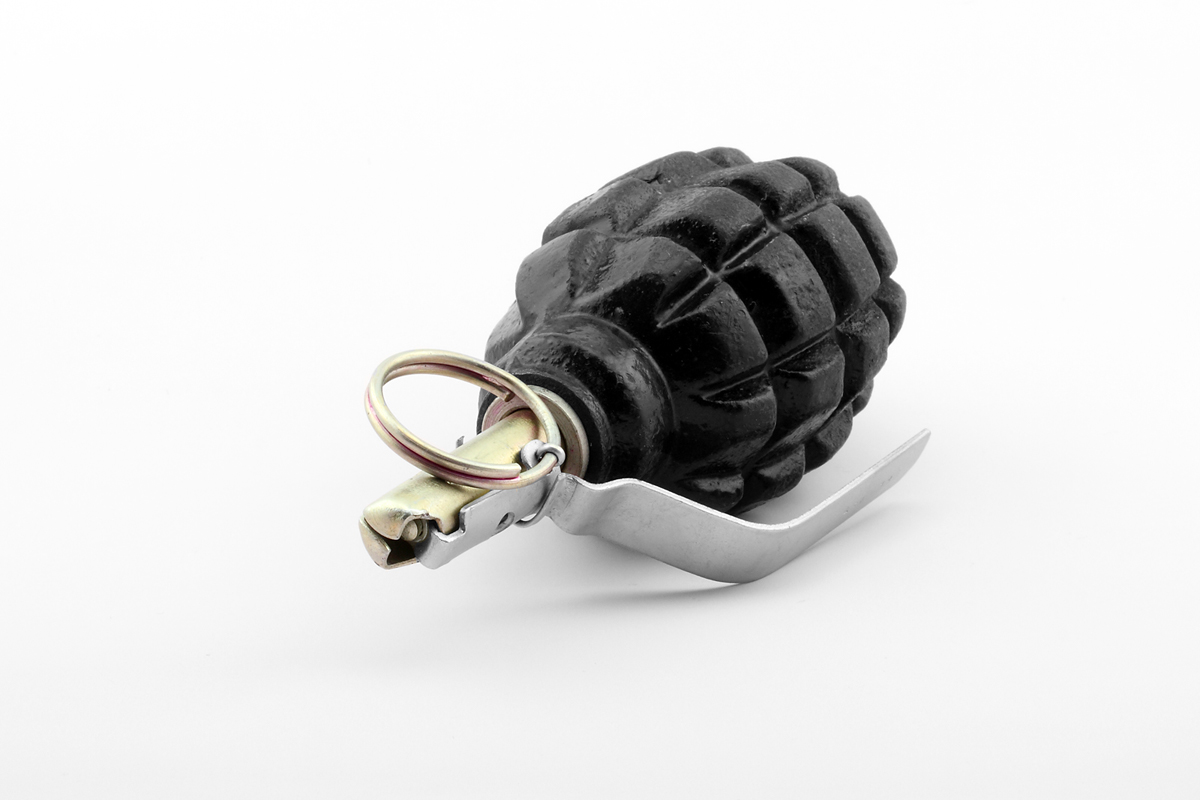 The Soviet F1 hand granade, nicknamed the limonka (lemon grenade) is an anti-personnel fragmentation defensive grenade.